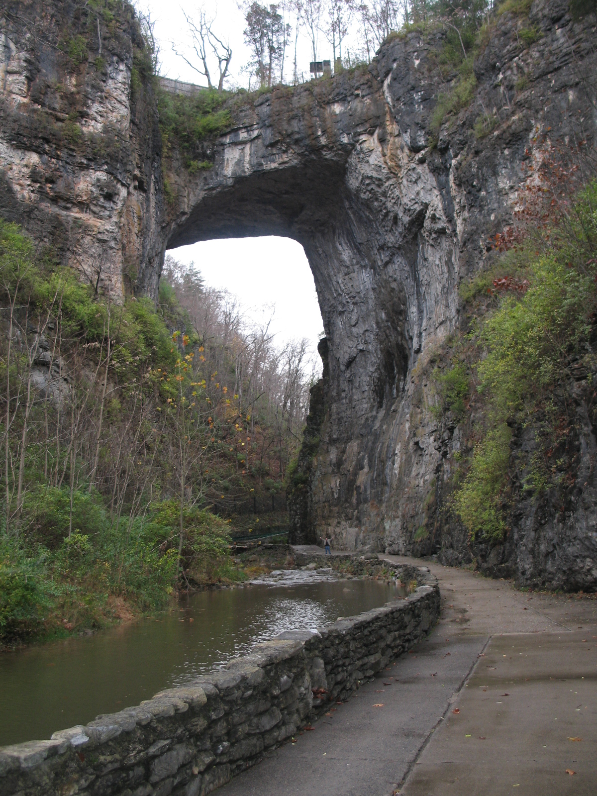 Natural Bridge, Virginia. Photo indicates size of the bridge.